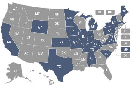 Blue: states represented by the United States Vice Presidents (primary affilation)